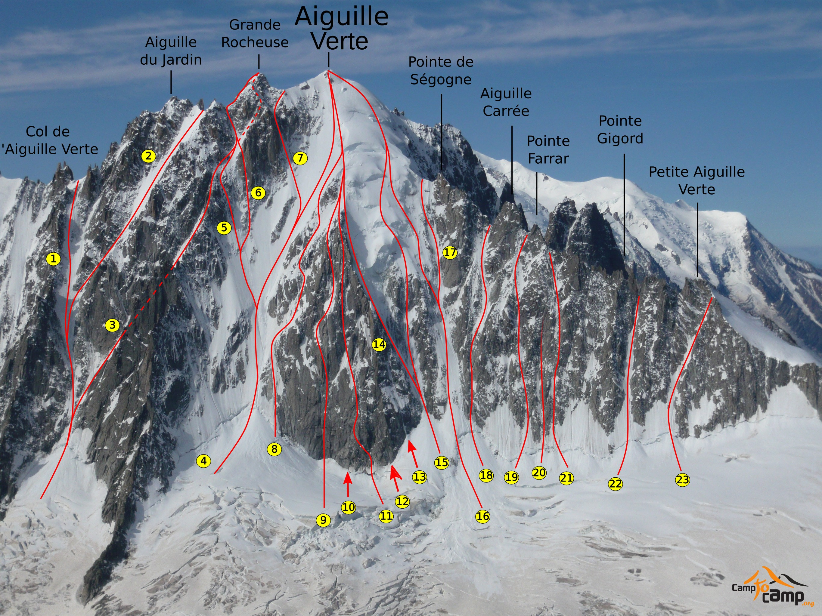 Aiguille Verte - North face